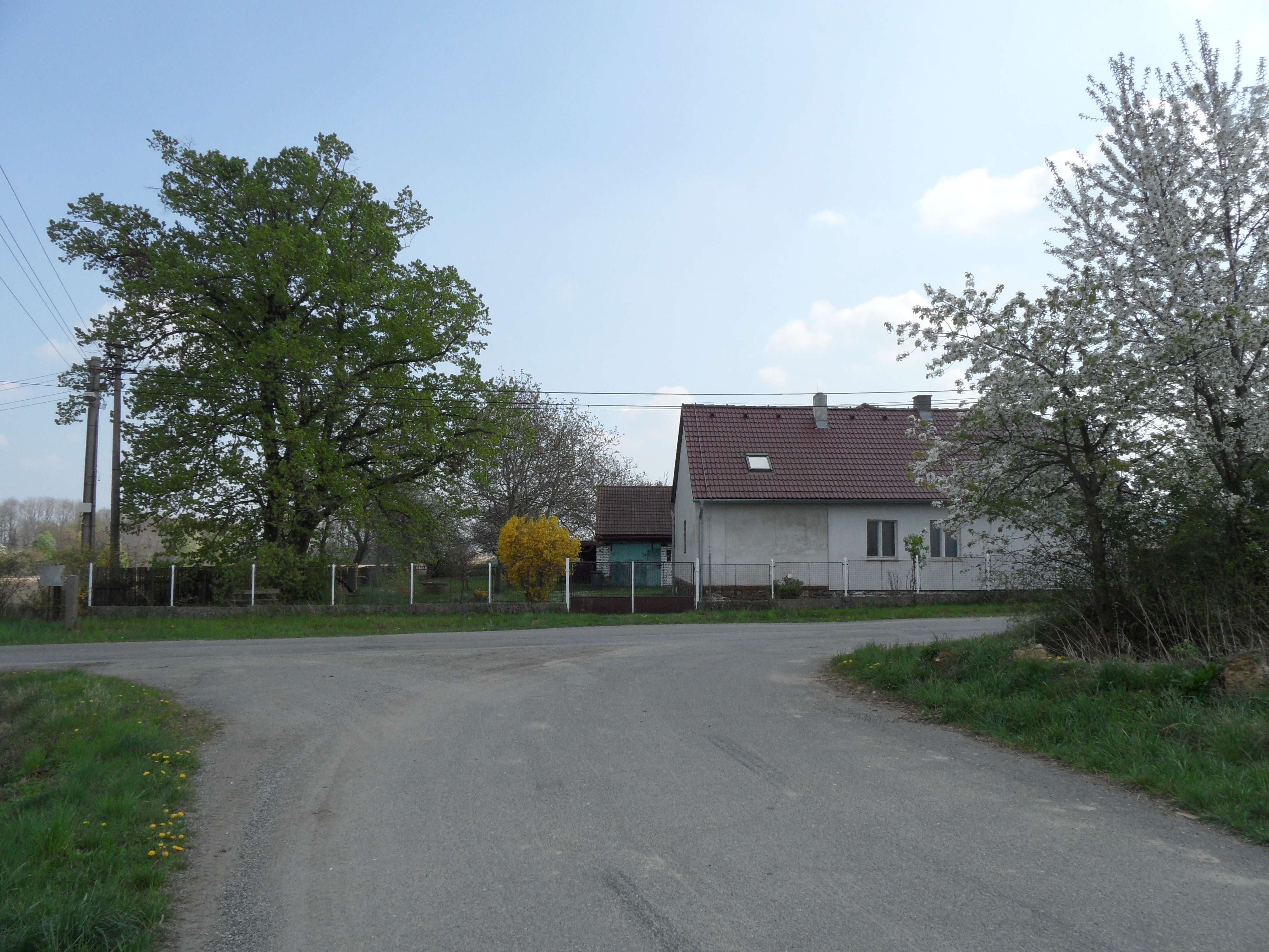 Hájek_(Úmonín) A. House at Crossroads Hájek – Úmonín x Hájek – Chrást, Kutná Hora District, the Czech Republic.